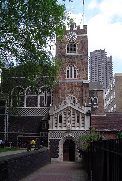 St Bartholomew the Great, exterior view Image by ChrisO